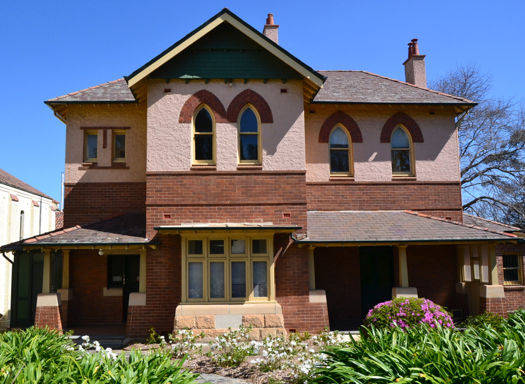 Pymble Presbytery, Pymble, Sydney